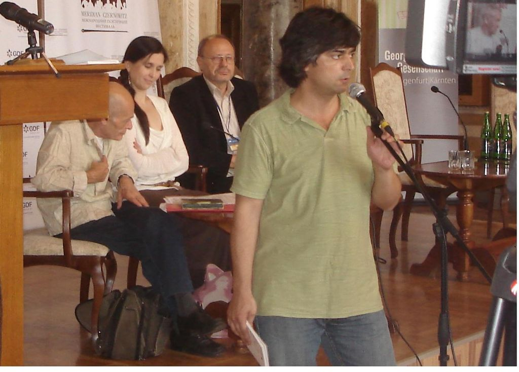 Speech by Aleksandr Volodymyrovych Boichenko at the Meridian Czernowitz Literary Festival in Chernivtsi (2011)